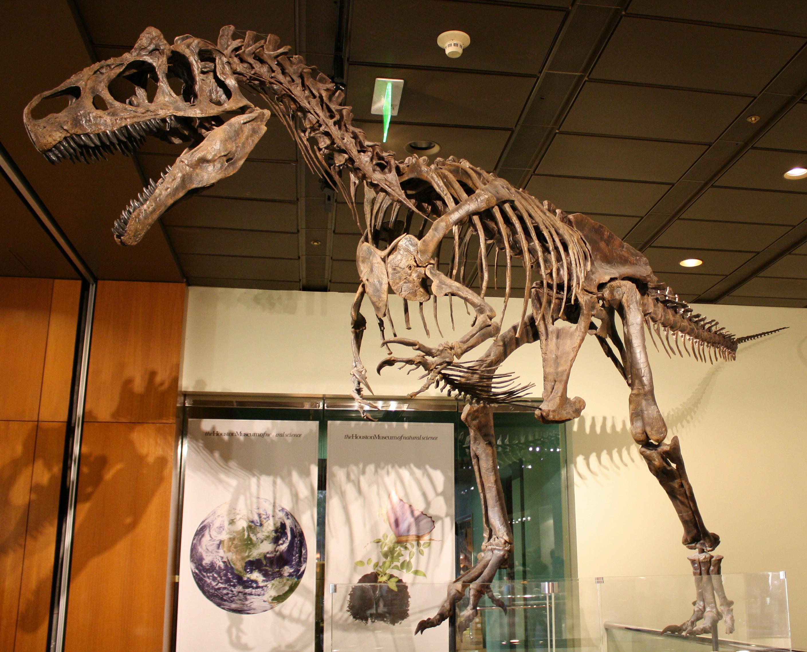 Allosaurus (Big Al II) This dinosaur lived during the Jurassic period approximately 150 million years ago. Big Al II was discovered in the Morrison Formation from the famous Howe Ranch near Shell, Wyoming. Allosaurus was a dangerous predator to other Jurassic dinosaurs. Wikipedia Loves Art at the Houston Museum of Natural Science This photo of item # [1] at the Houston Museum of Natural Science was contributed under the team name "The_Wookies" as part of the Wikipedia Loves Art project in February 2009. Houston Museum of Natural Science The original photograph on Flickr was taken by andytang20—please add a comment to the original Flickr page whenever a use has been made on Wikipedia or another project. Project galleries on Flickr: this institution, this team